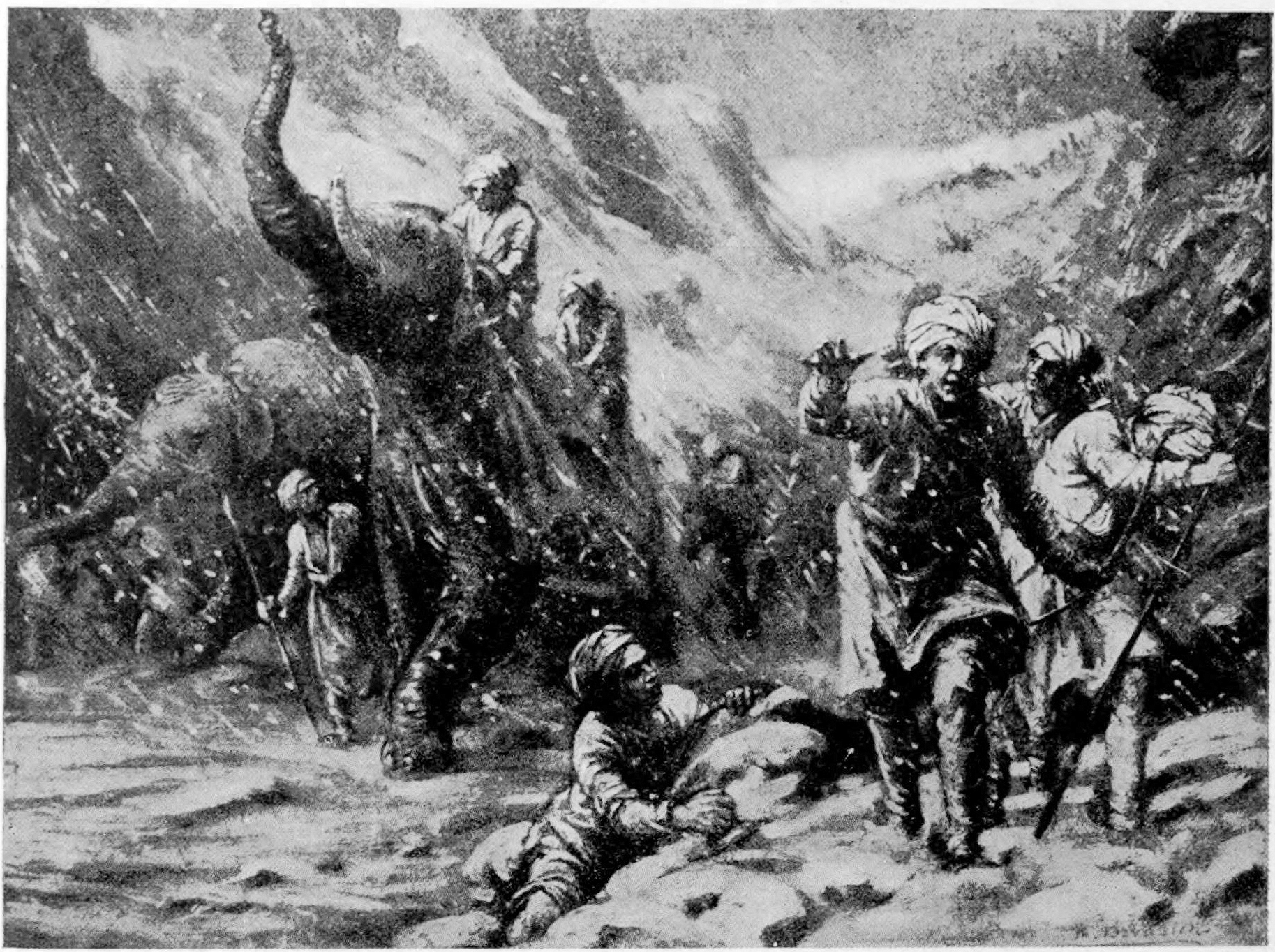 Mahmud of Ghazni first success. From Hutchinson's story of the nations, containing the Egyptians, the Chinese, India, the Babylonian nation, the Hittites, the Assyrians, the Phoenicians and the Carthaginians, the Phrygians, the Lydians, and other nations of Asia Minor.